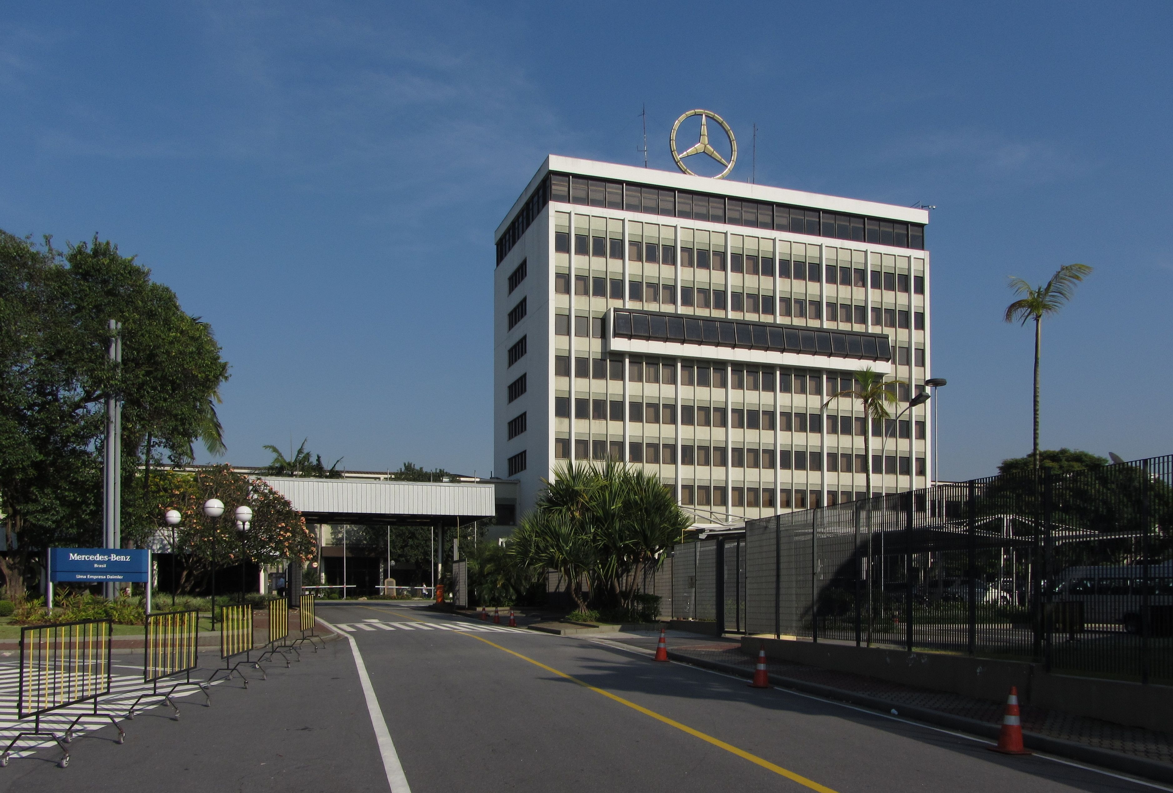 Central office building of Mercedes-Benz do Brasil in São Bernardo do Campo.